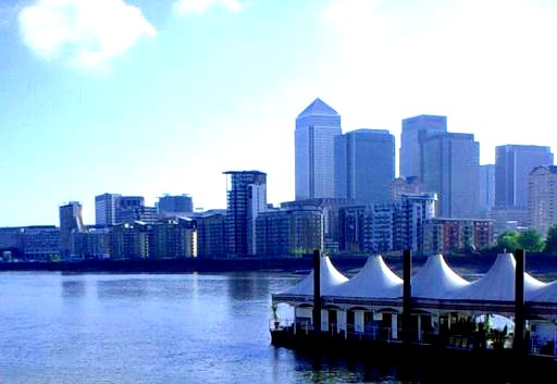 View of Canary Wharf from Greenland Pier